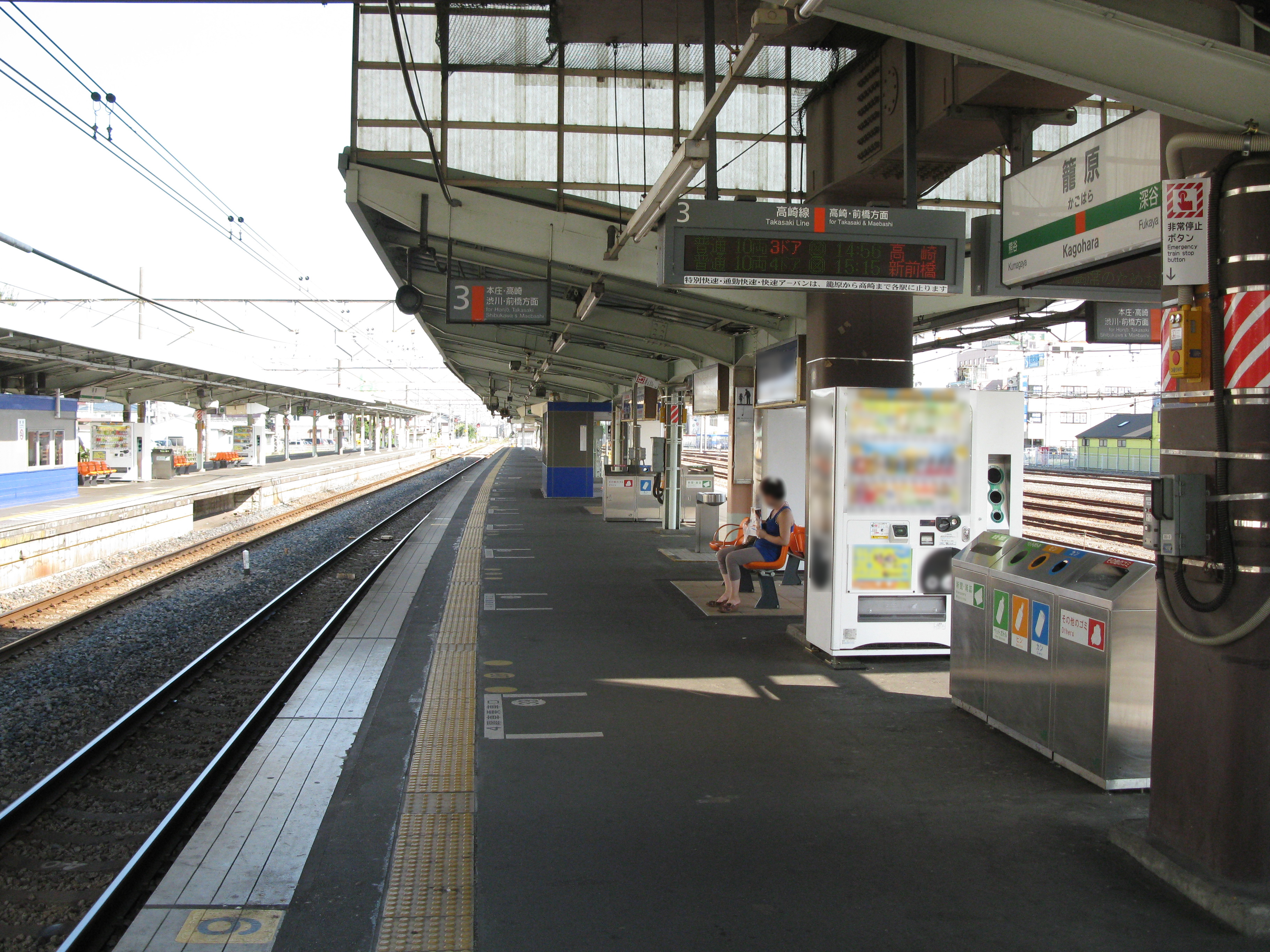 Kagohara Station platform (East Japan Railway(JR East) Takasaki Line)